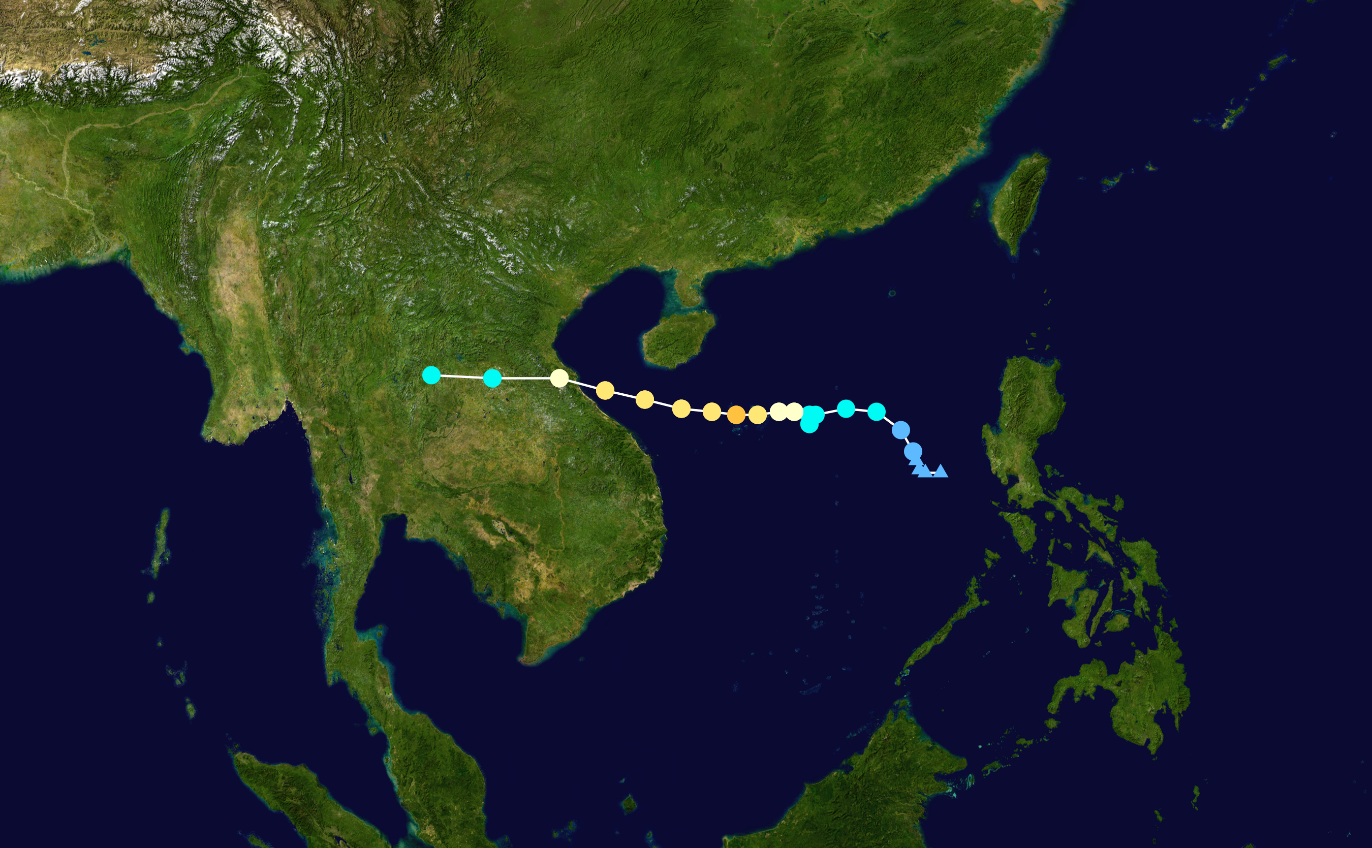 Track map of Typhoon Wutip of the 2013 Pacific typhoon season. The points show the location of the storm at 6-hour intervals. The colour represents the storm's maximum sustained wind speeds as classified in the Saffir–Simpson scale (see below), and the shape of the data points represent the nature of the storm, according to the legend below. Saffir–Simpson scale Tropical depression≤38 mph≤62 km/h Category 3111–129 mph178–208 km/h Tropical storm39–73 mph63–118 km/h Category 4130–156 mph209–251 km/h Category 174–95 mph119–153 km/h Category 5≥157 mph≥252 km/h Category 296–110 mph154–177 km/h Unknown Storm type Tropical cyclone Subtropical cyclone Extratropical cyclone / Remnant low / Tropical disturbance / Monsoon depression